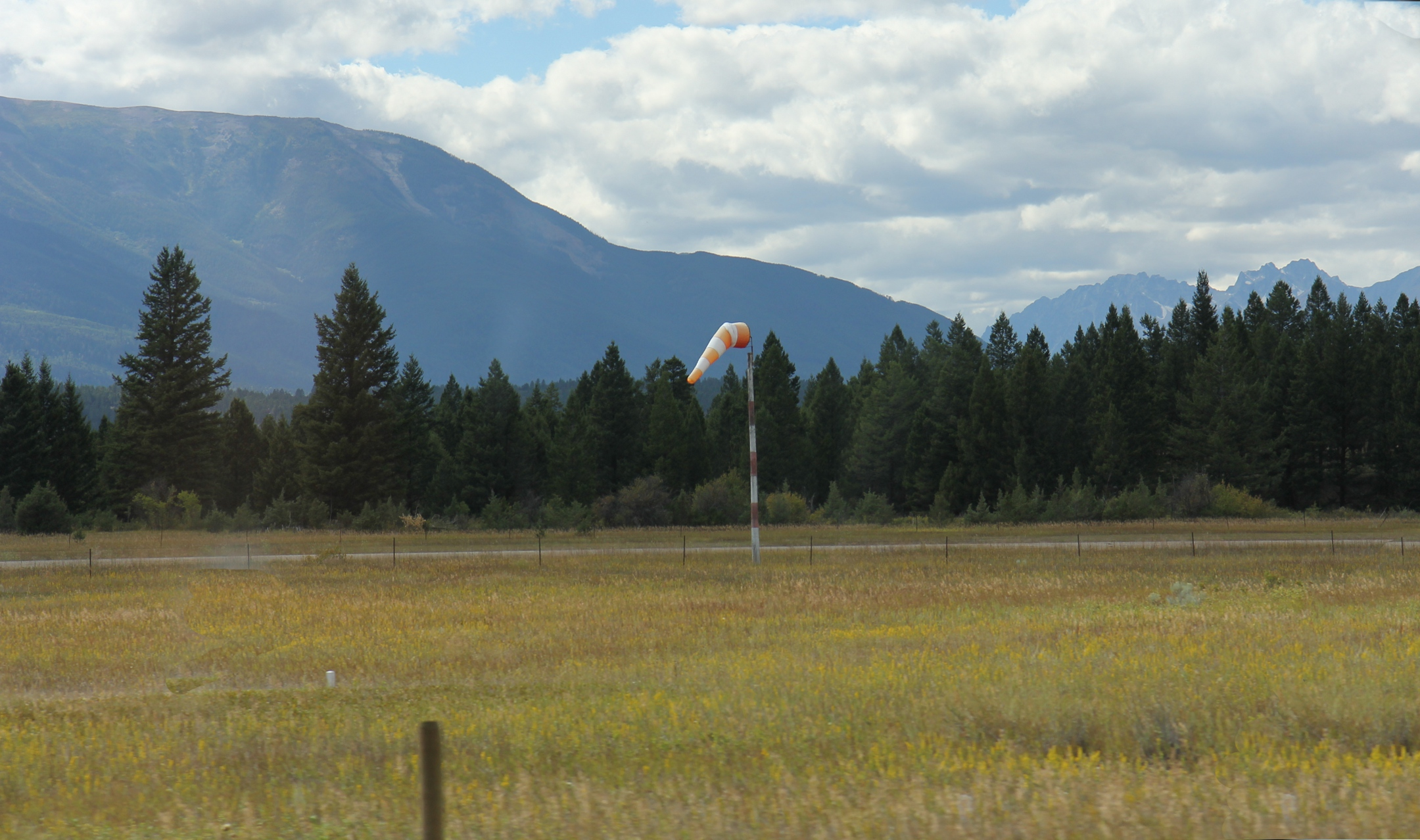 Elbow River Helicopters at Invermere Airport.